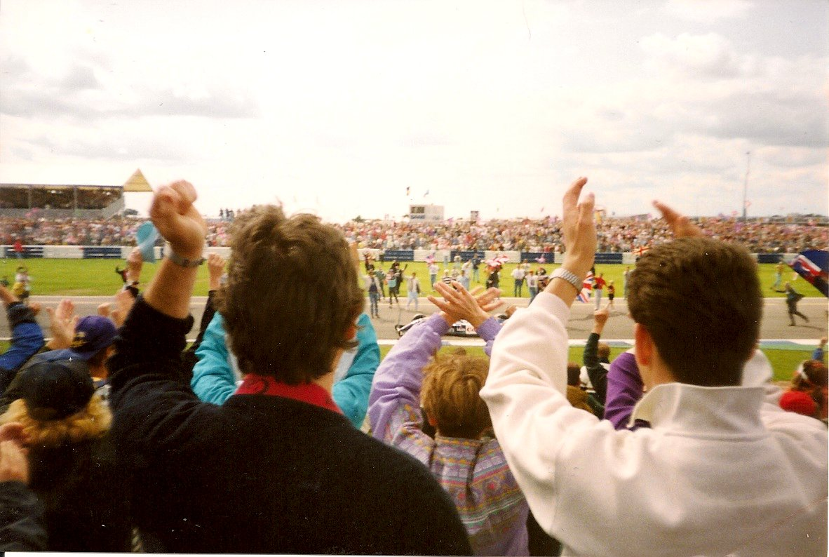 The crowd invading the track following Nigel Mansell's victory at the 1992 British Grand Prix at Silverstone.